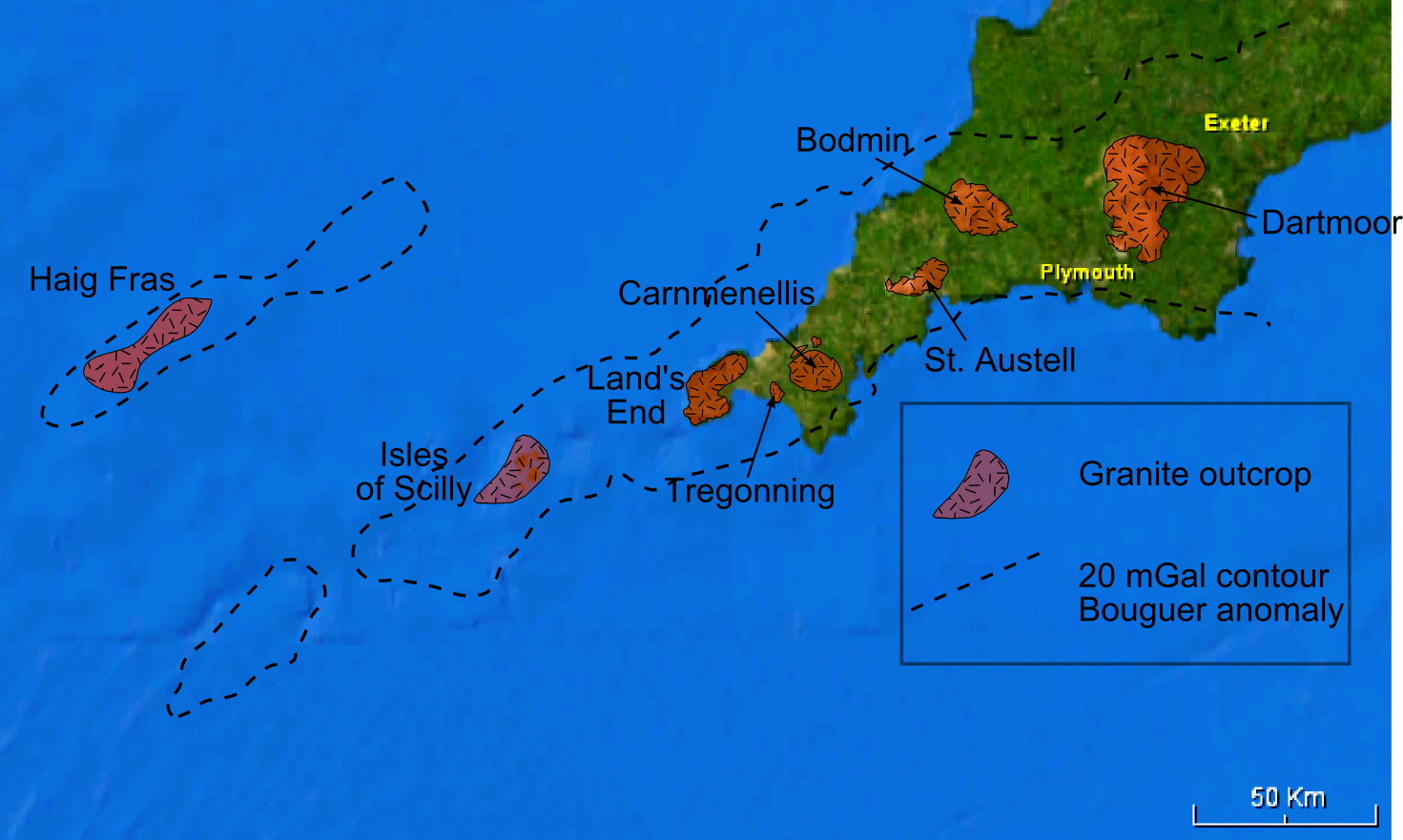 Map of the Cornubian batholith and the Haig Fras granite, outcrops taken from various published maps and 20 mGal Bouguer gravity contour taken from Edwards 1984 [1] and Taylor 2007 [2] - base is a snapshot from NASA World Wind software. The granite intrusions are lower in density than the average for the upper part of the continental crust and therefore show up as a negative anomaly where the observed gravitational field has been corrected for the effects of topography (the Bouguer correction). The 20 mGal contour is there to show the extent of this negative anomaly.